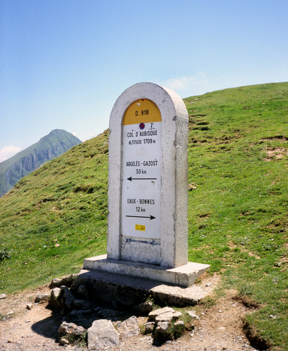 Col d'Aubisque, french Pyrenees